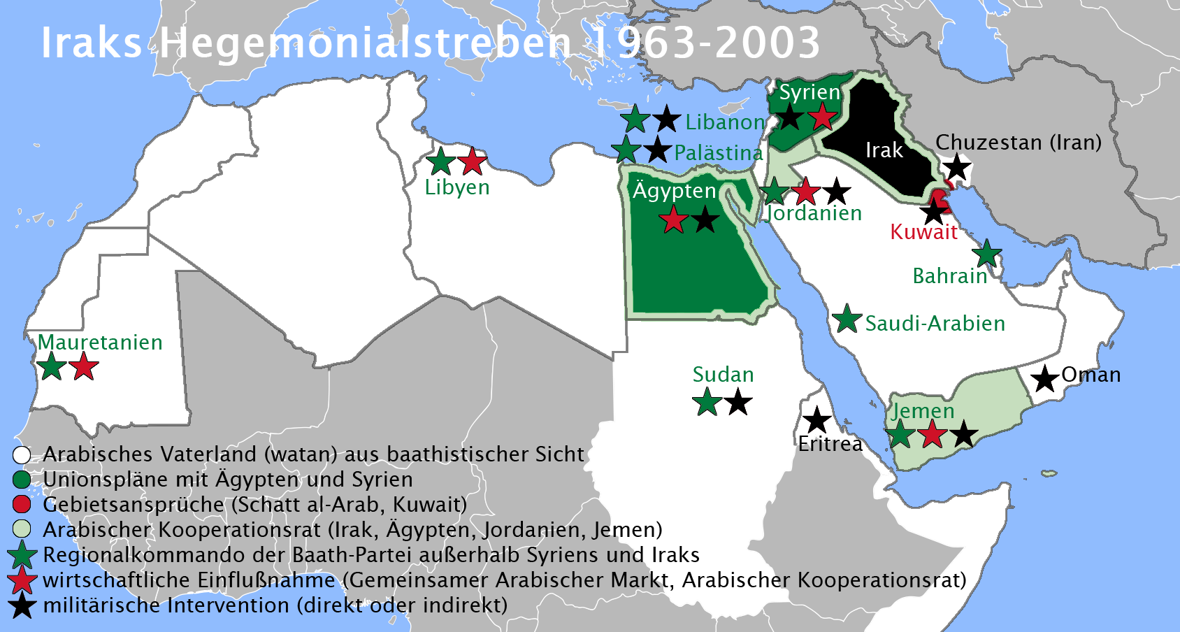 Baathist Iraq's hegemonic ambitions between 1963 and 2003: white area = Arab fatherland (watan) in the baathist view black area = Iraq dark-green area = Union projects with Egypt (1963, 1969, 1972) and Syria (1963, 1969, 1972, 1979) light-green area = Arab Cooperation Council (Iraq, Egypt, Jordan and Yemen) red area = territorial claims (Shatt al-Arab/Khuzestan 1980-82 and 1988, Kuwait 1990-91 occupied) green star = ideological expansion (regional Baath parties outside Syria and Iraq) red star = economic cooperation (Arab Common Market 1964-1979, Arab Cooperation Council 1989-1990) black star = military intervention (sending troops or advisers, instructors and weapons)